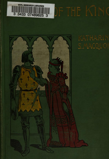 A Ward of the King: A Romance, by Katharine Sarah Macquoid